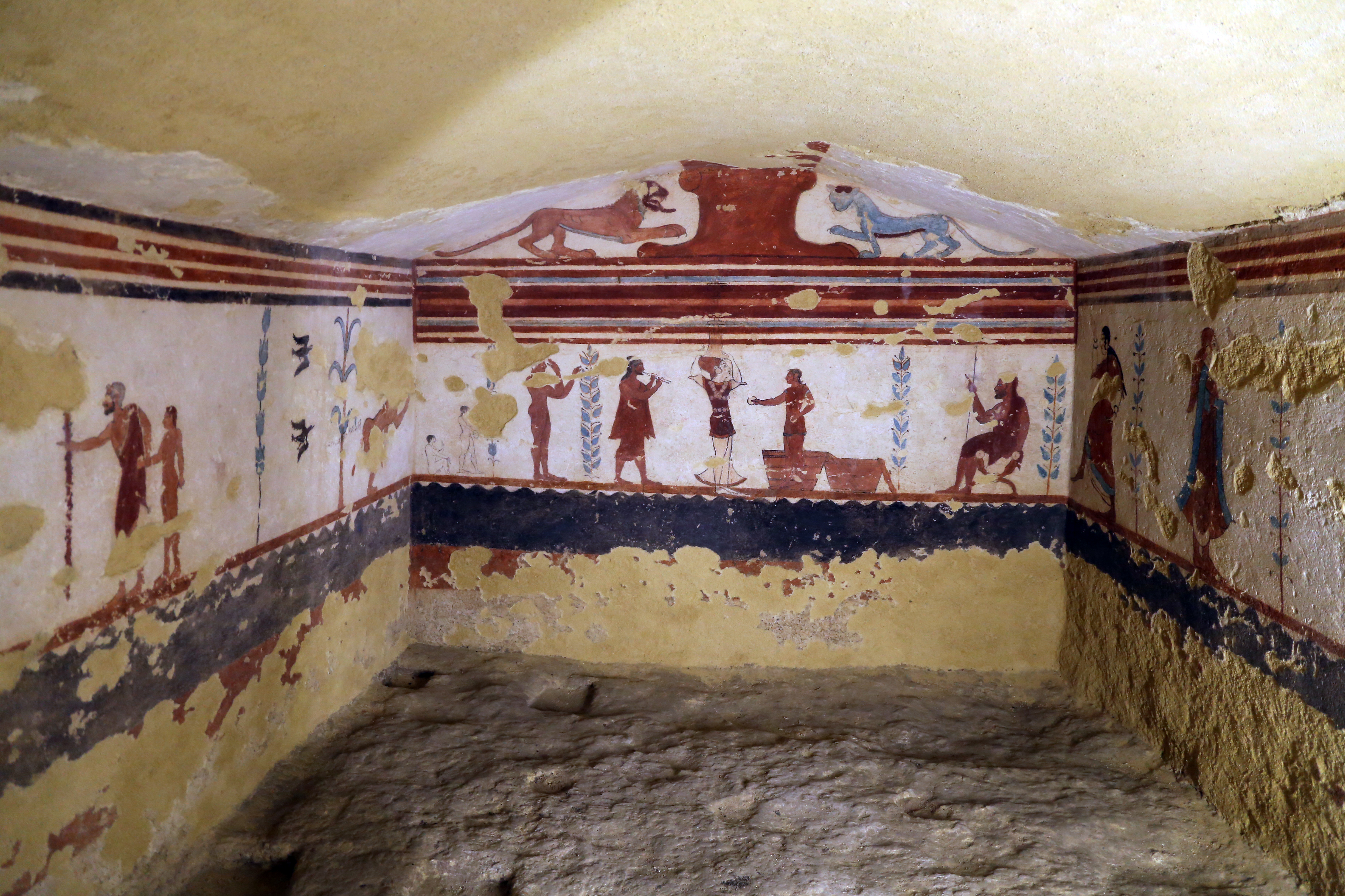 Necropoli dei Monterozzi (Tarquinia)